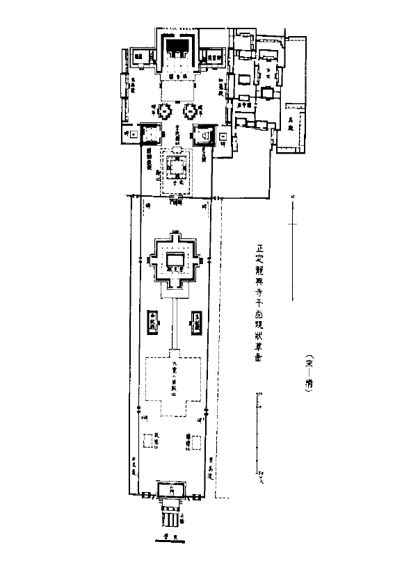 Layout of Longxing Temple drawn by Liang Sicheng and published in 1933. This drawing only showed the Tower of Great Mercy and the buildings south of it.